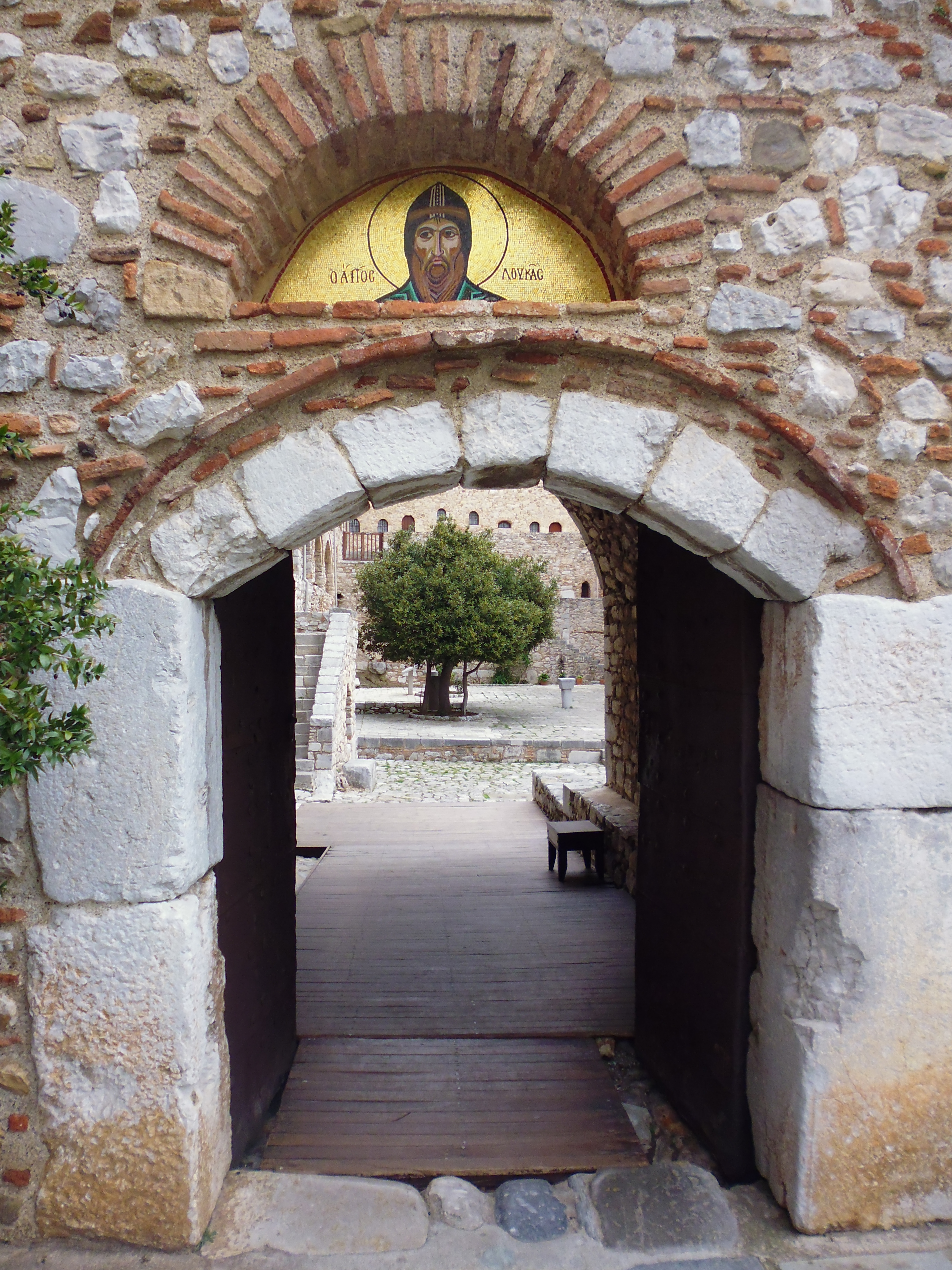 Monastery of Osios Loukas - Entrance«Μονή Οσίου Λουκά Βοιωτίας»